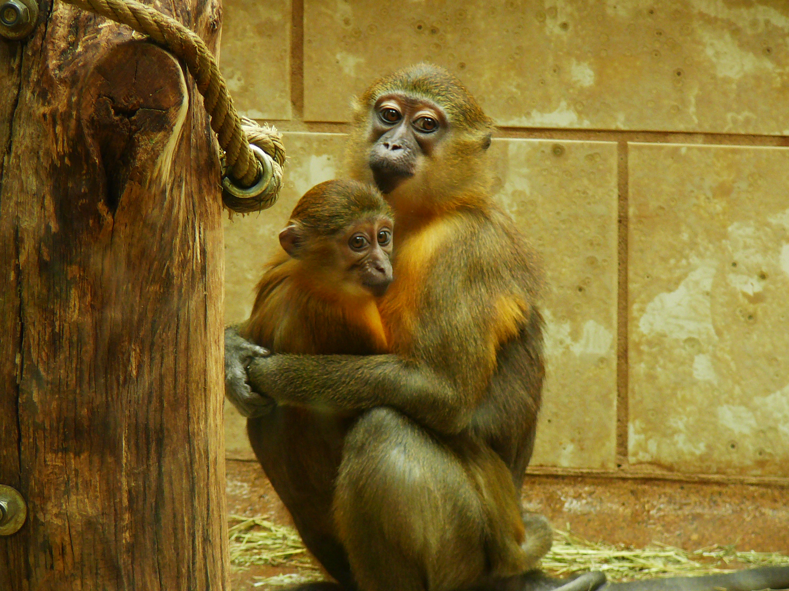 Cercocebus chrysogaster